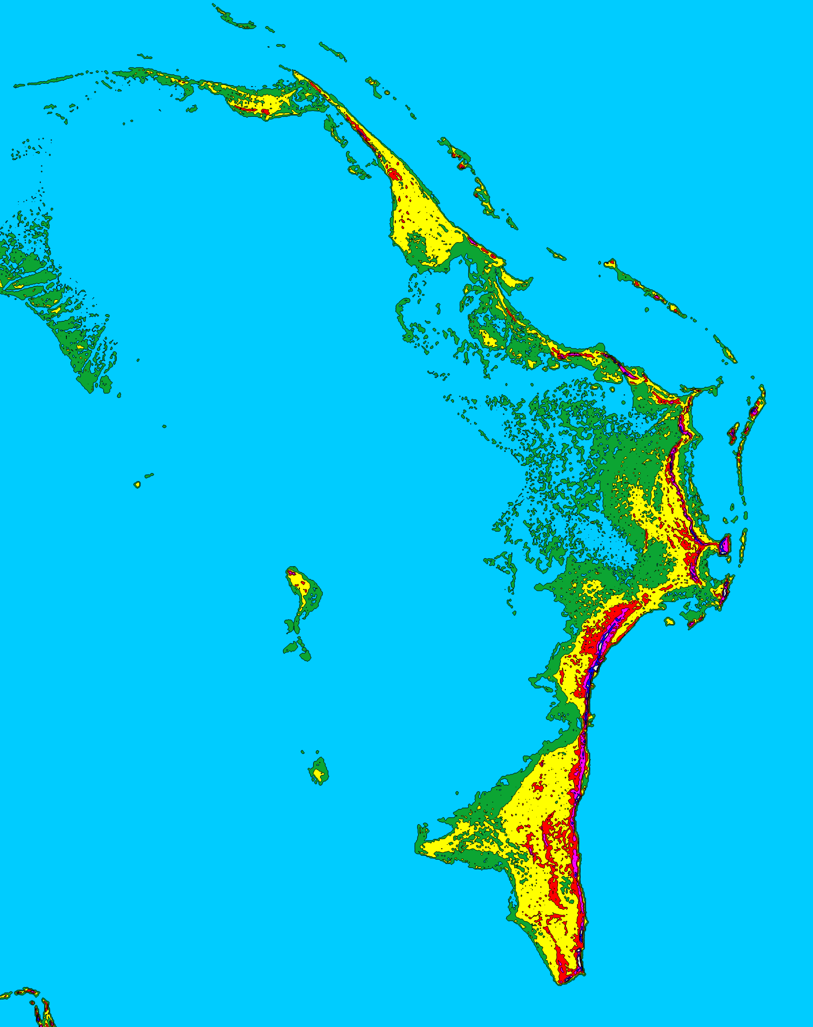 Topographic map of the Abaco Islands, Bahamas shaded at 15 foot (4.572 meter) contour intervals. MAP KEY Light Blue: 0 ft (0.0 m) Green: 0-15 ft (0.0-4.6 m) Yellow: 15-30 ft (4.6-9.1 m) Red: 30-45 ft (9.1-13.7 m) Violet: 45-60 ft (13.7-18.3 m) Blue: 60-75 ft (18.3-22.9 m) White: 75+ ft (22.9+ m) Map created with SRTM3 digital elevation data ( Resolution is ~90 meters.